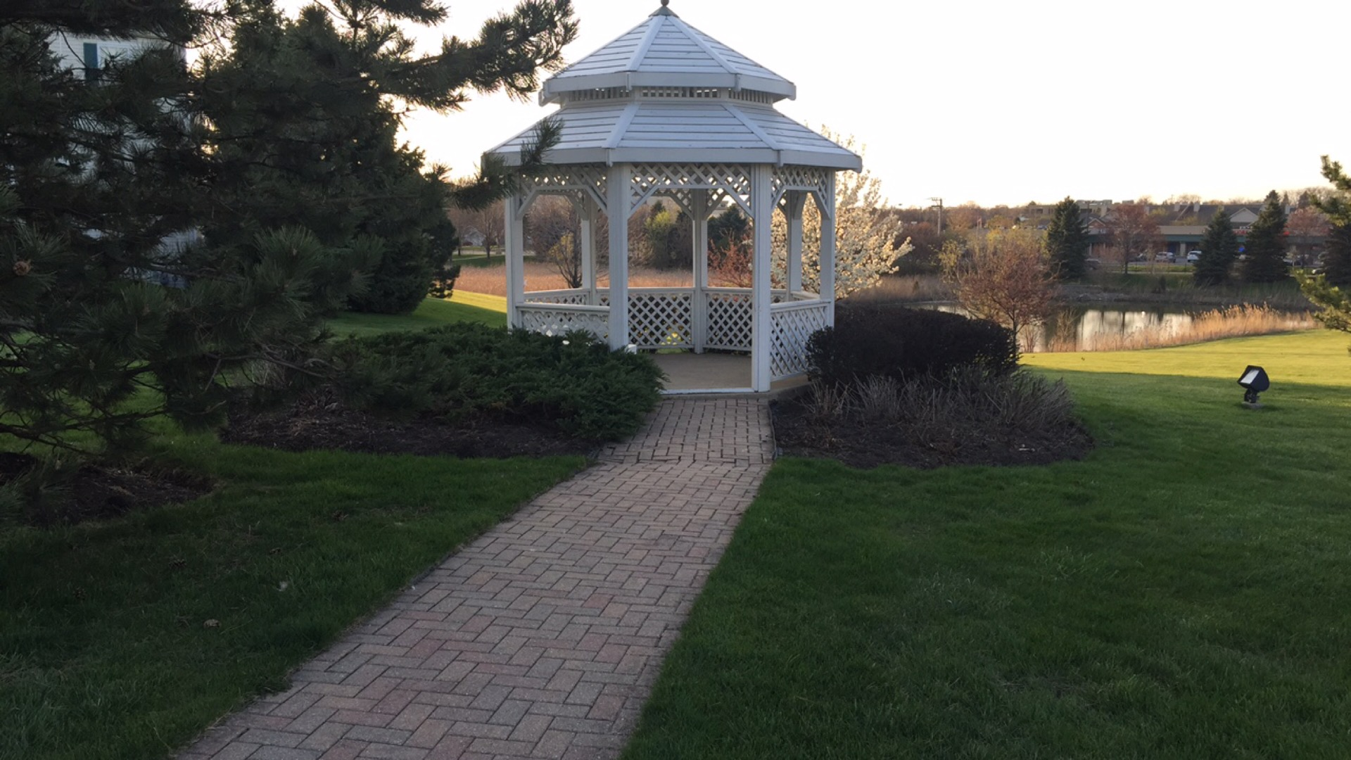 Gazebo in Lombard Illinois